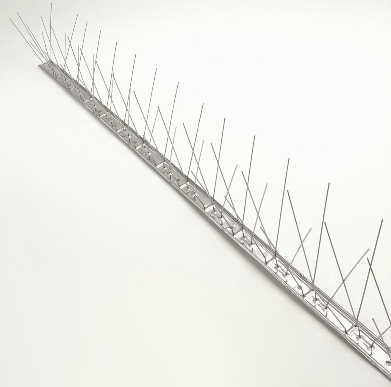 Stainless Steel Anti Bird Spikes